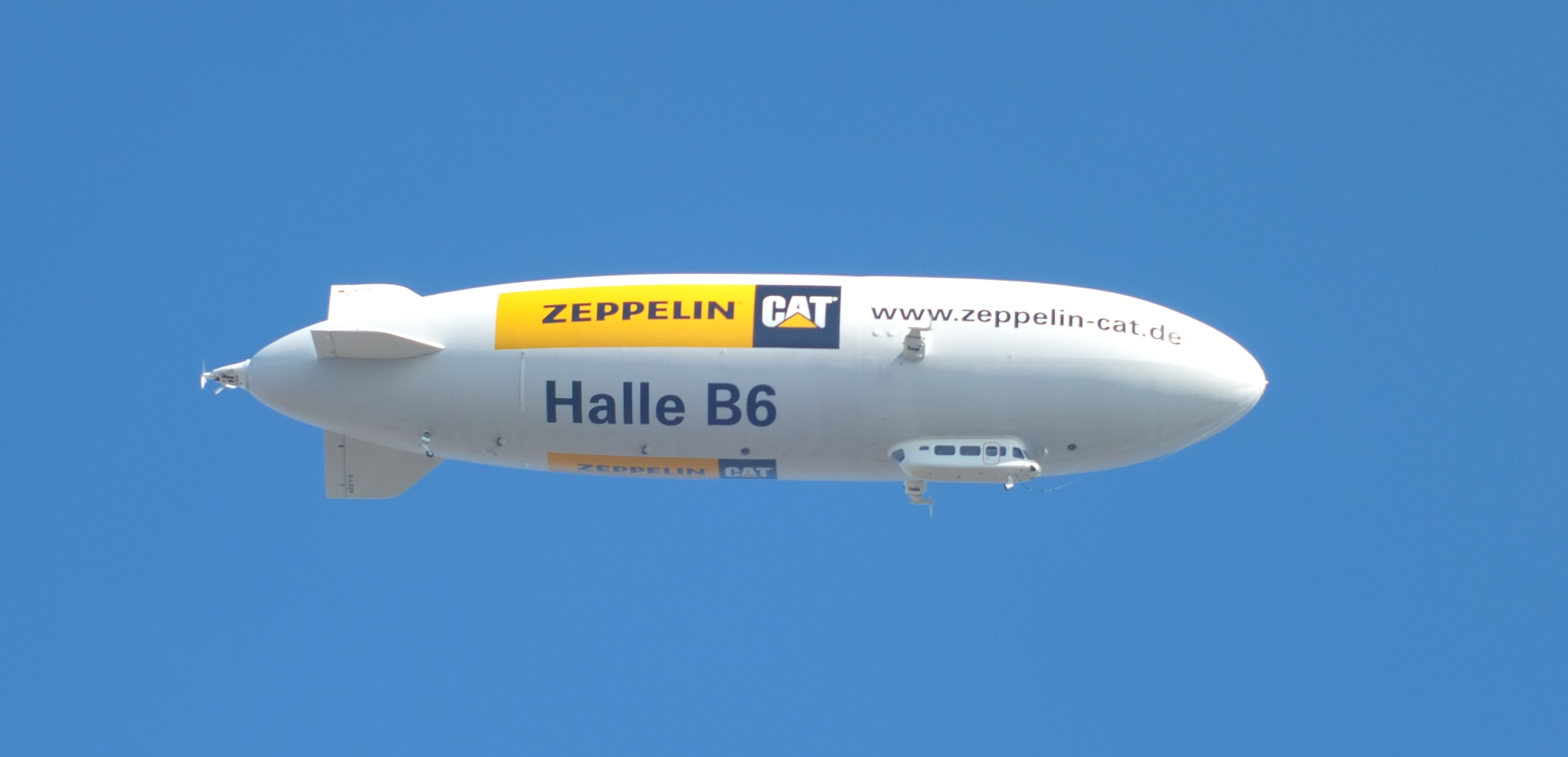 Zeppelin LZN07-100 Airship of DZR Deutsche Zeppelin Reederei over Munich.